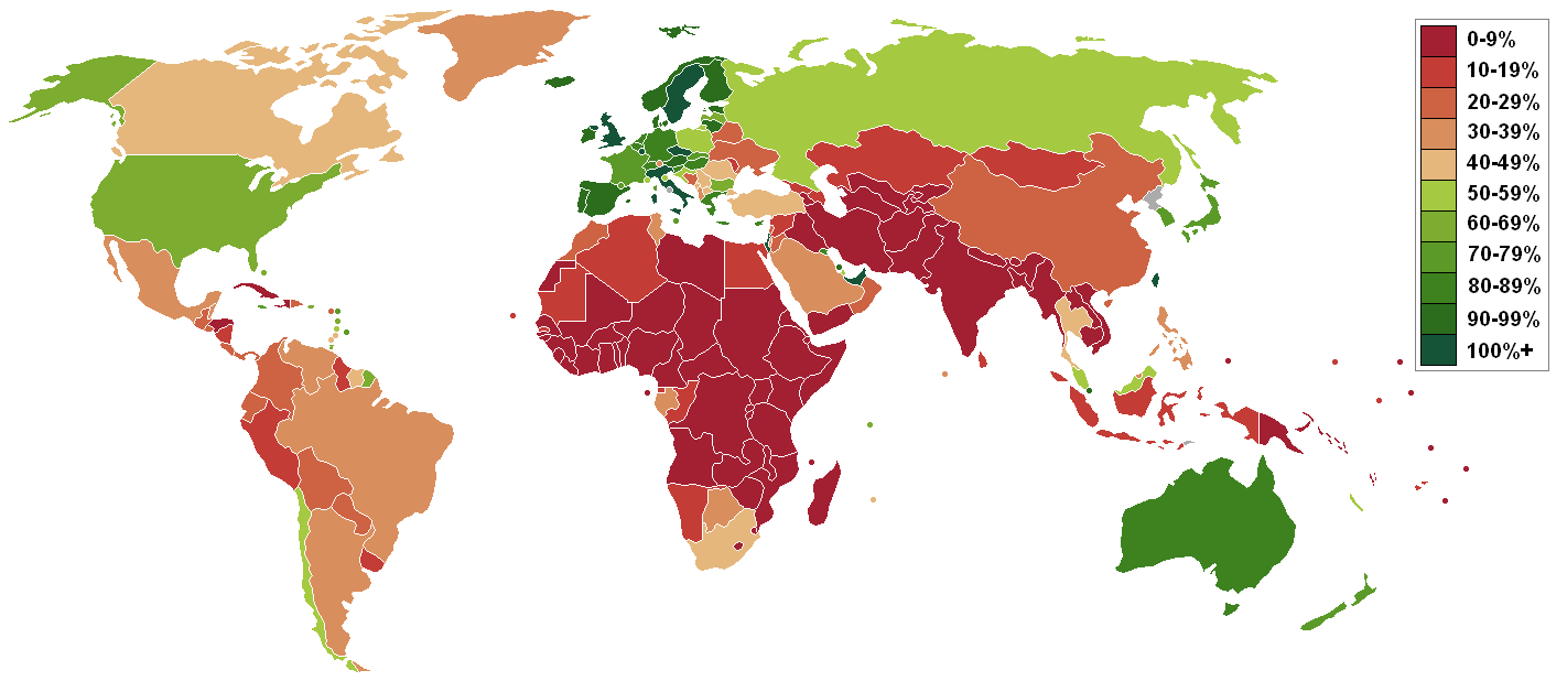 Mobile phone use as a percentage of population, (note some countries have above 100% i.e. more phones than people)